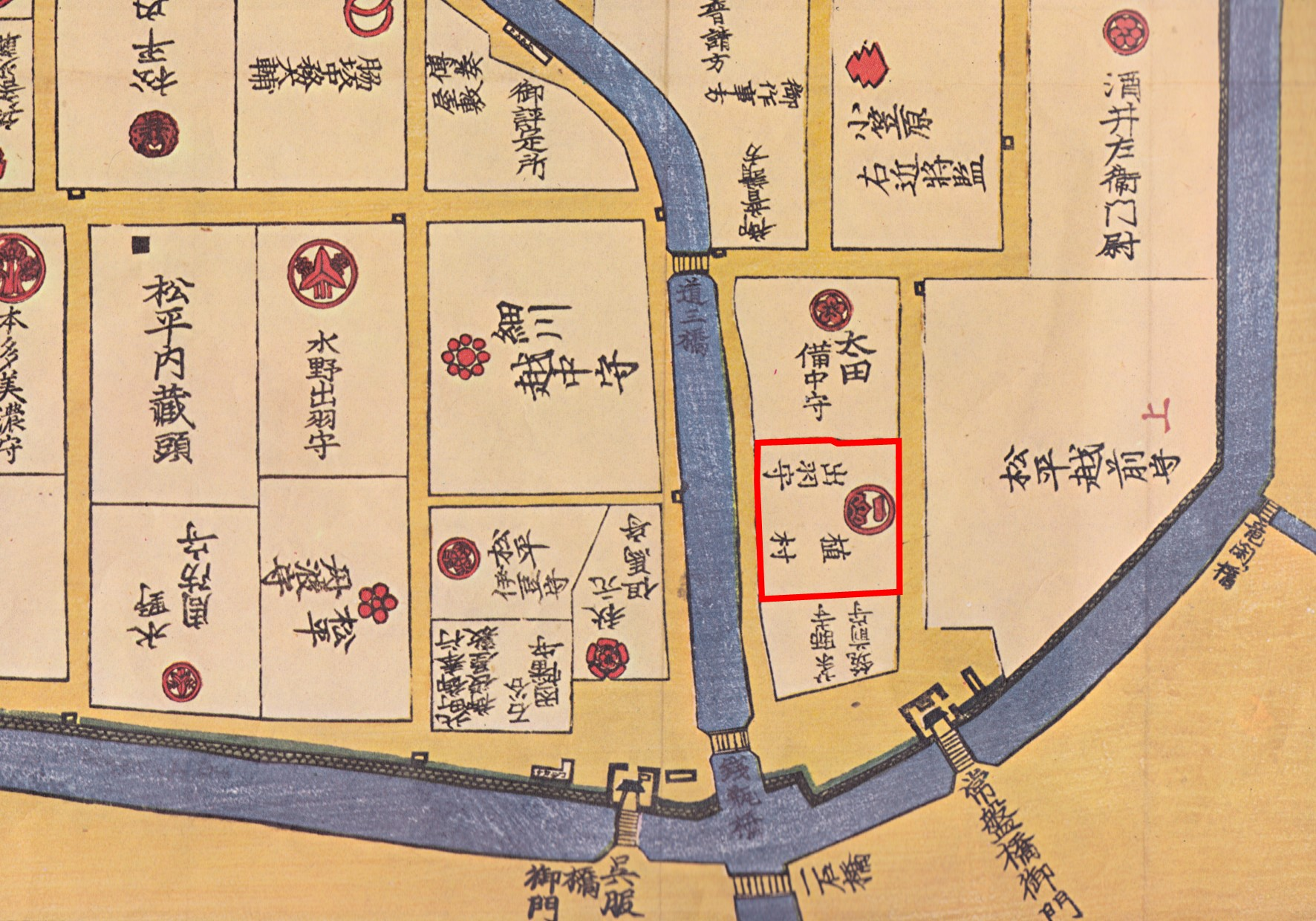 Residence of Uemura clan at Edo